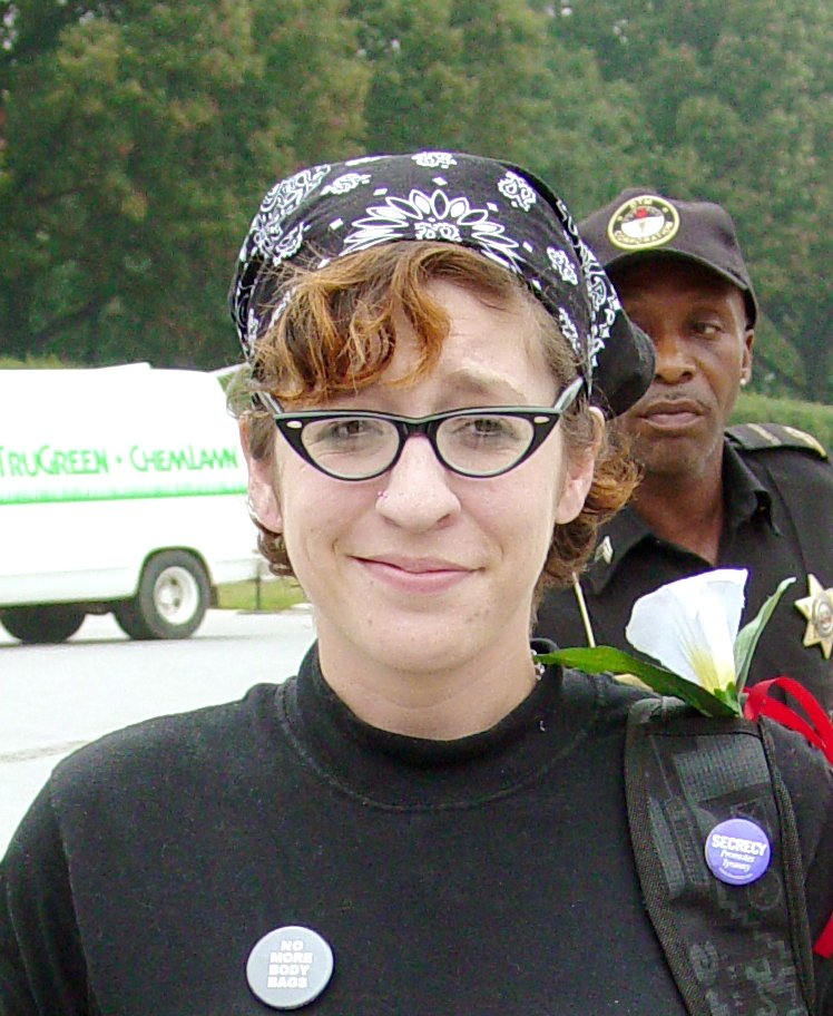 A woman wears a black bandanna on her head at a protest in Arlington, Virginia.